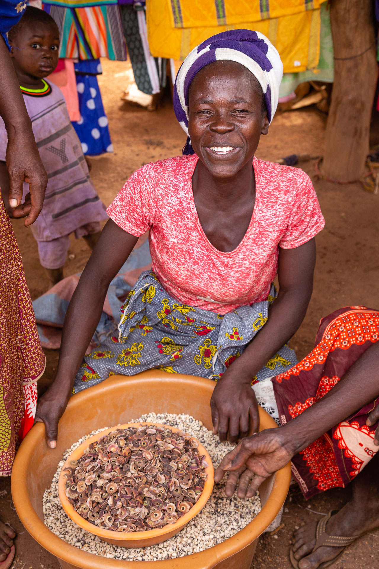 A Konkomba woman sells dried sepals (of Bombax Buonopozense flowers) and beans in the market of Gbintiri, Ghana.